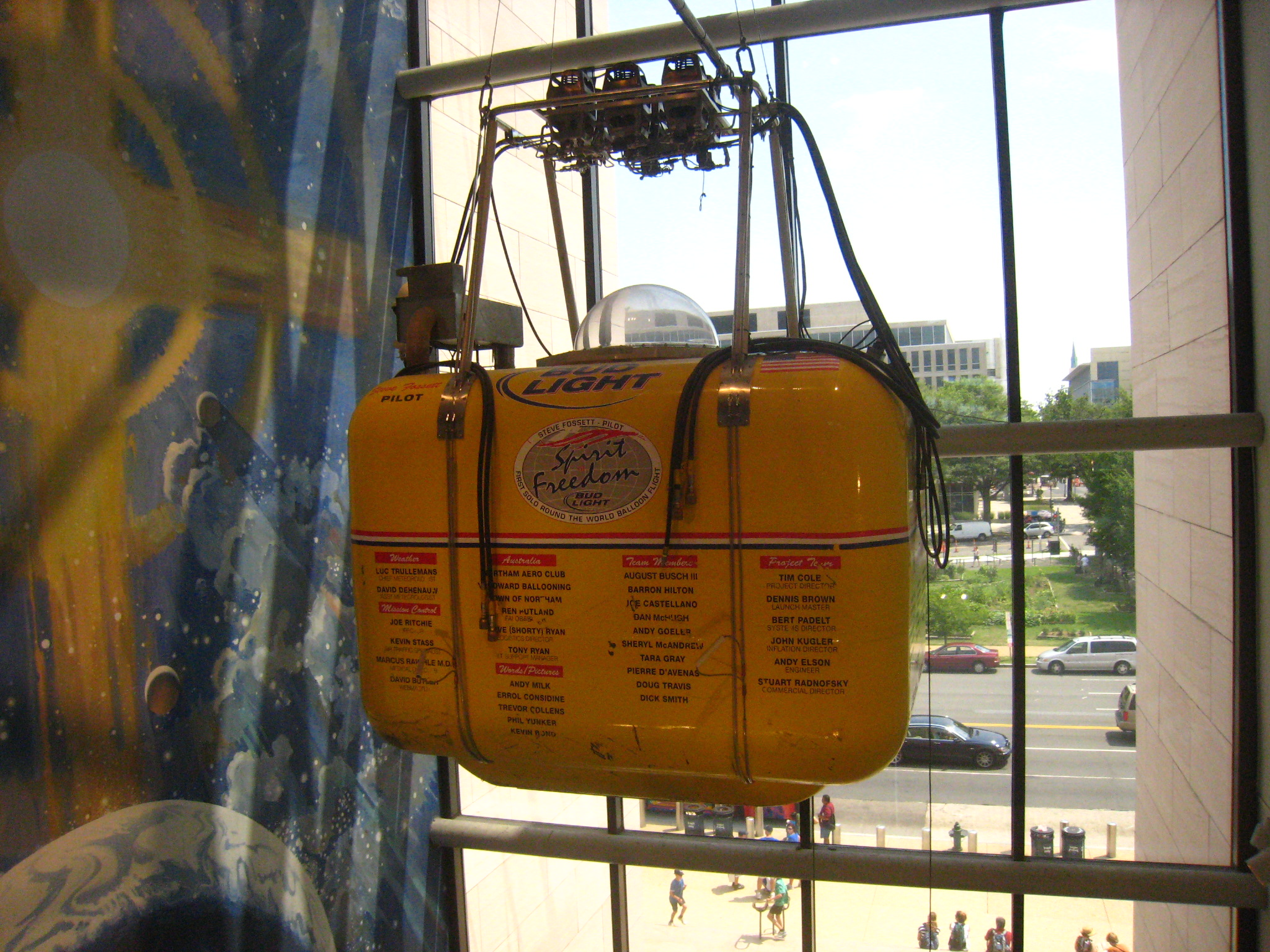 Spirit-of-Freedom-Ballon